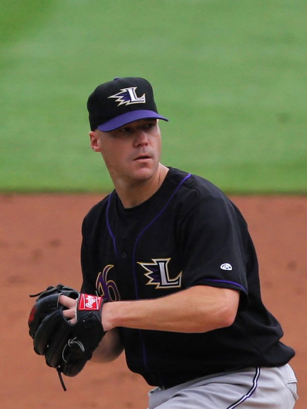 Justin Lehr, Syracuse, NY, July 27, 2009. 02:08, 12 August 2009 . . BubbaFan . . 600×800 (54 KB)